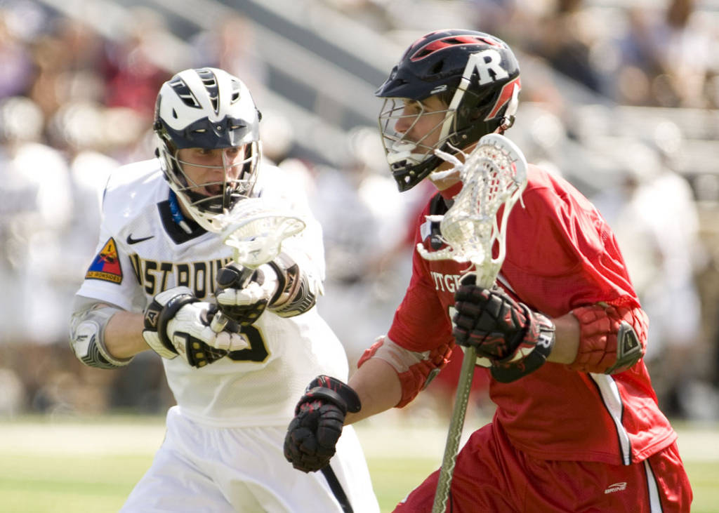 Army Black Knights play the Rutgers Scarlet Knights in this regular season game. Army wins 11-8